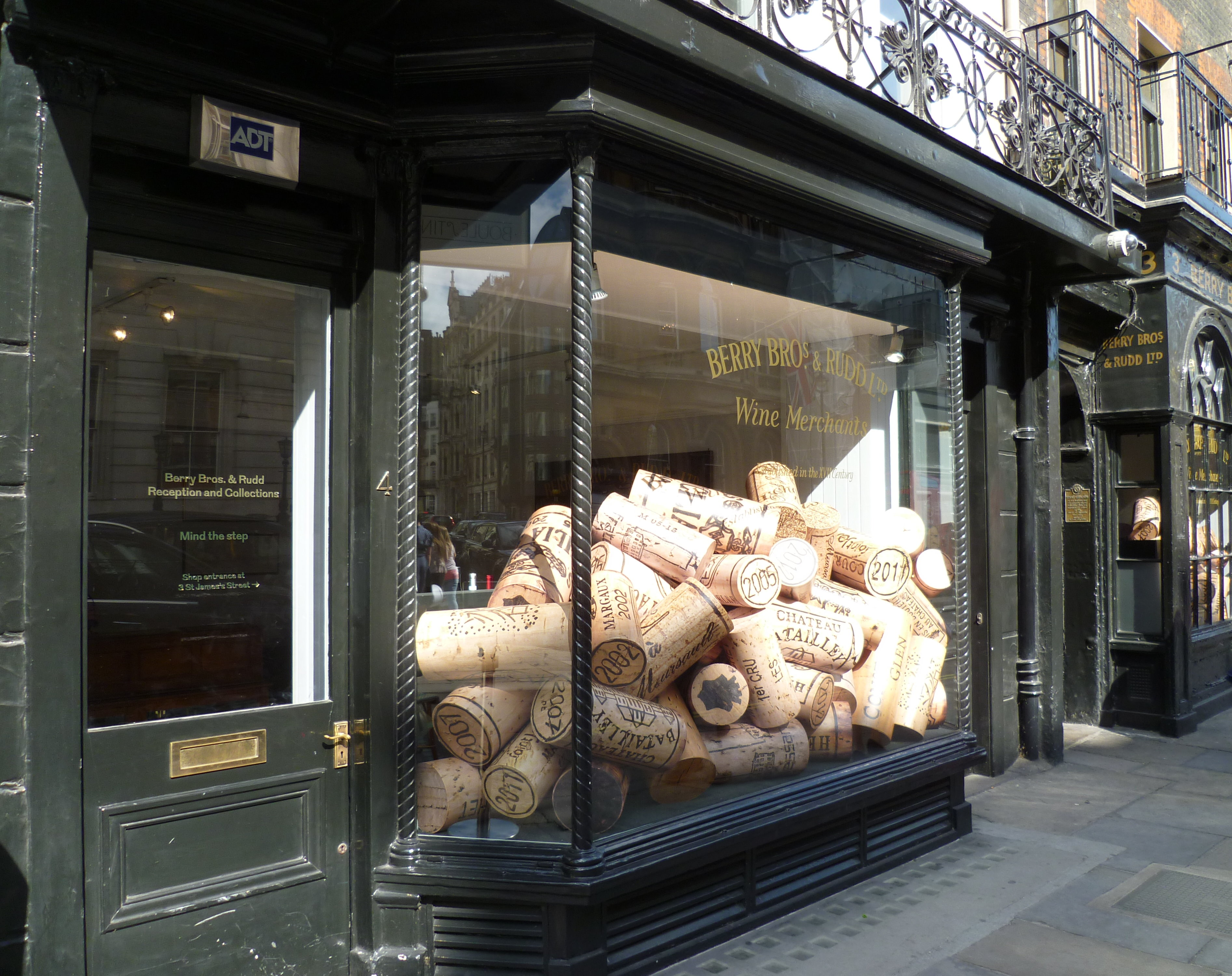 Berry Brothers & Rudd